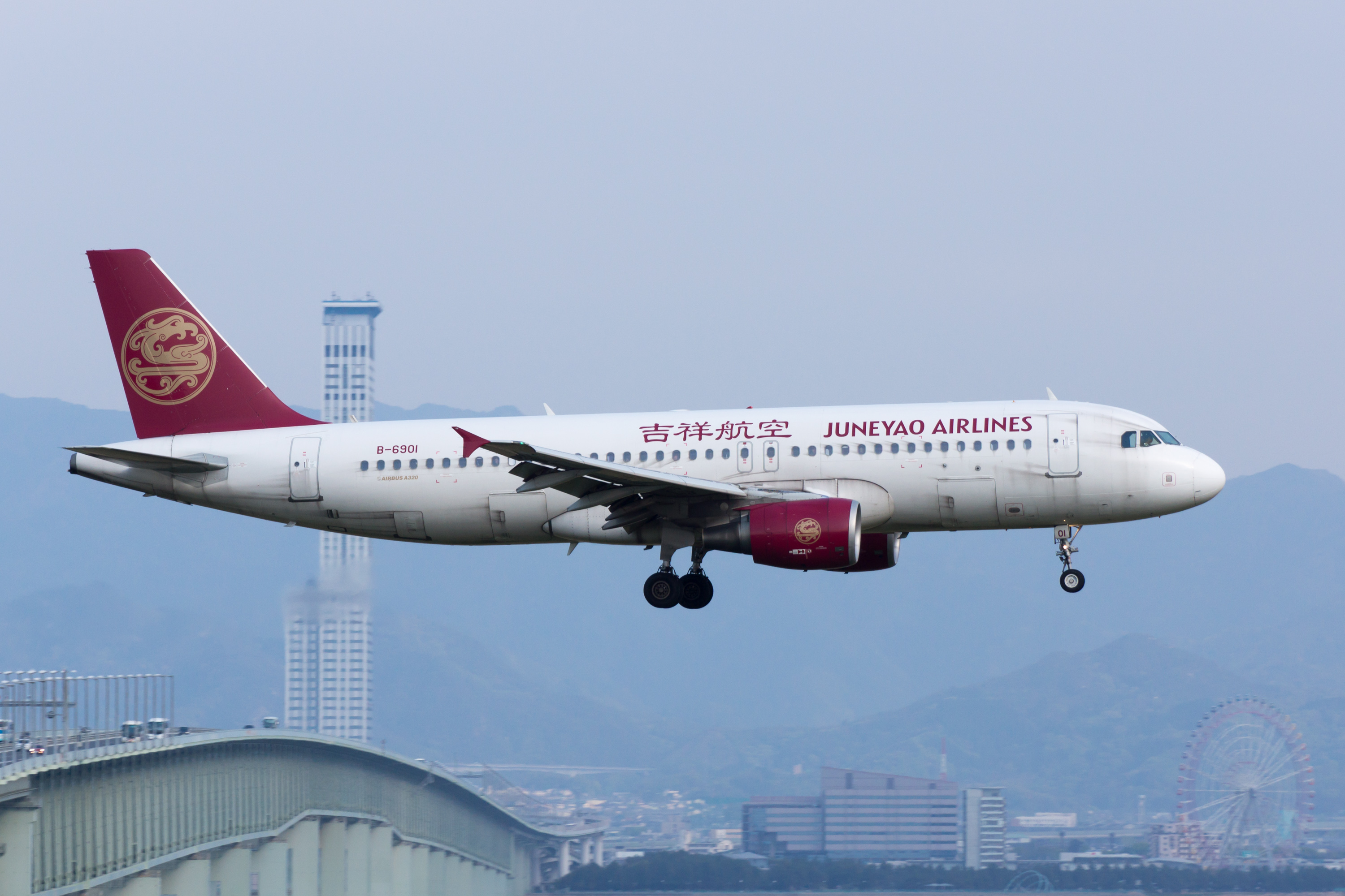 Juneyao Airlines Airbus A320-214